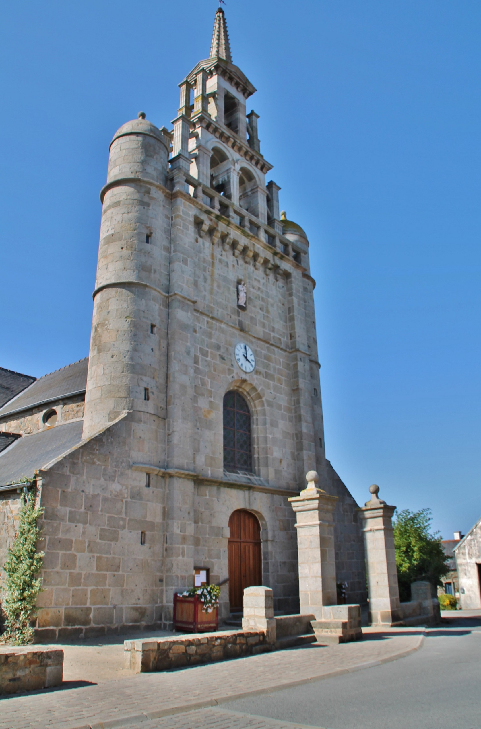 église St Georges